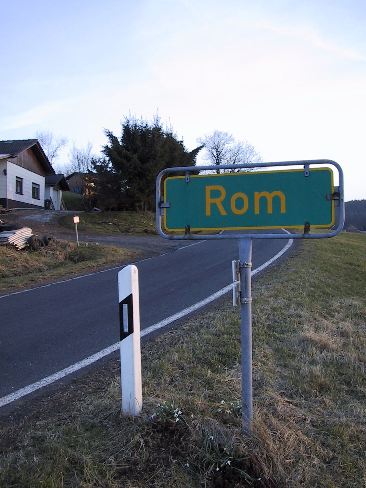 Rom (Eifel) 3. April 2003